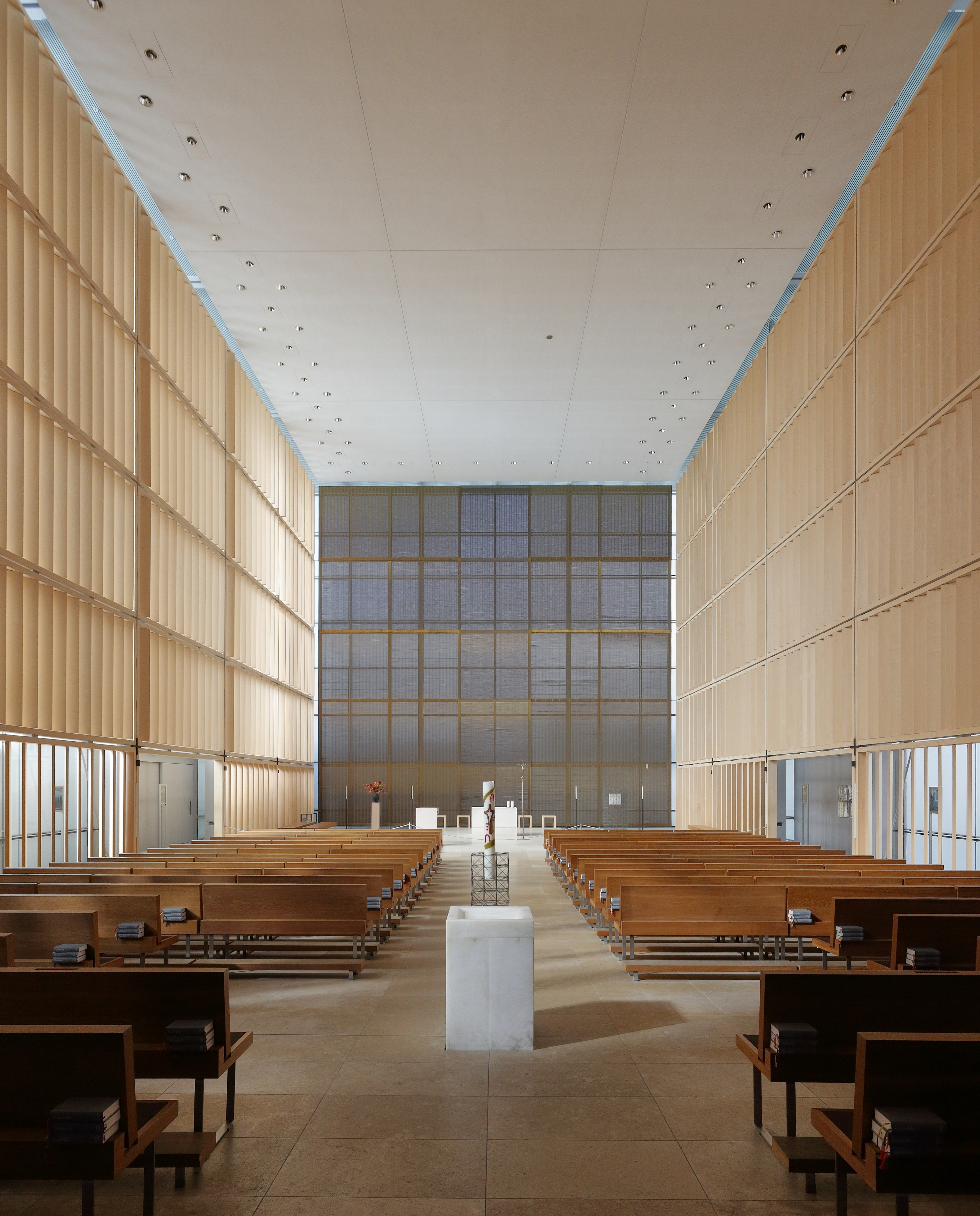 Sacred Heart Church, Munich, interior